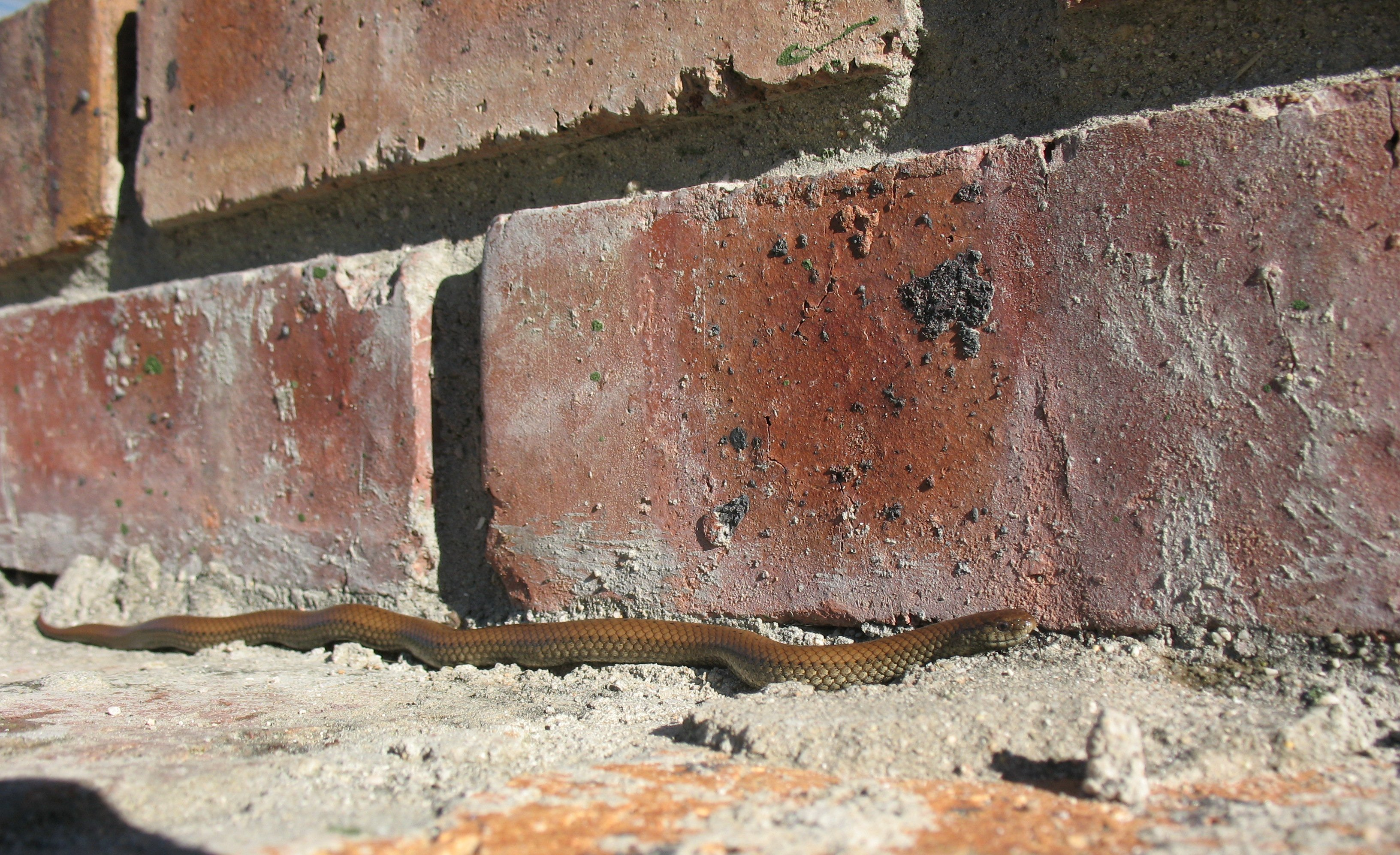 The common slugeater, Duberria lutrix, found outside Stellenbosch, South Africa